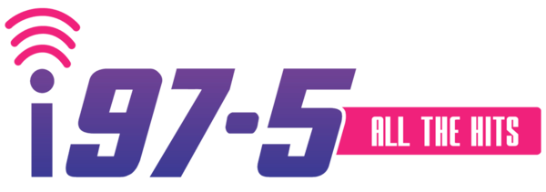 Logo of the radio station KSZR.q